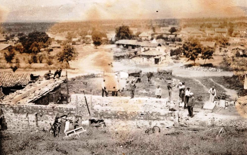 Village Pirava (Valandovo), 1931 This media file is produced by Wikipedian in Residence in Category:Wikipedian in Residence at DARM in 2016.